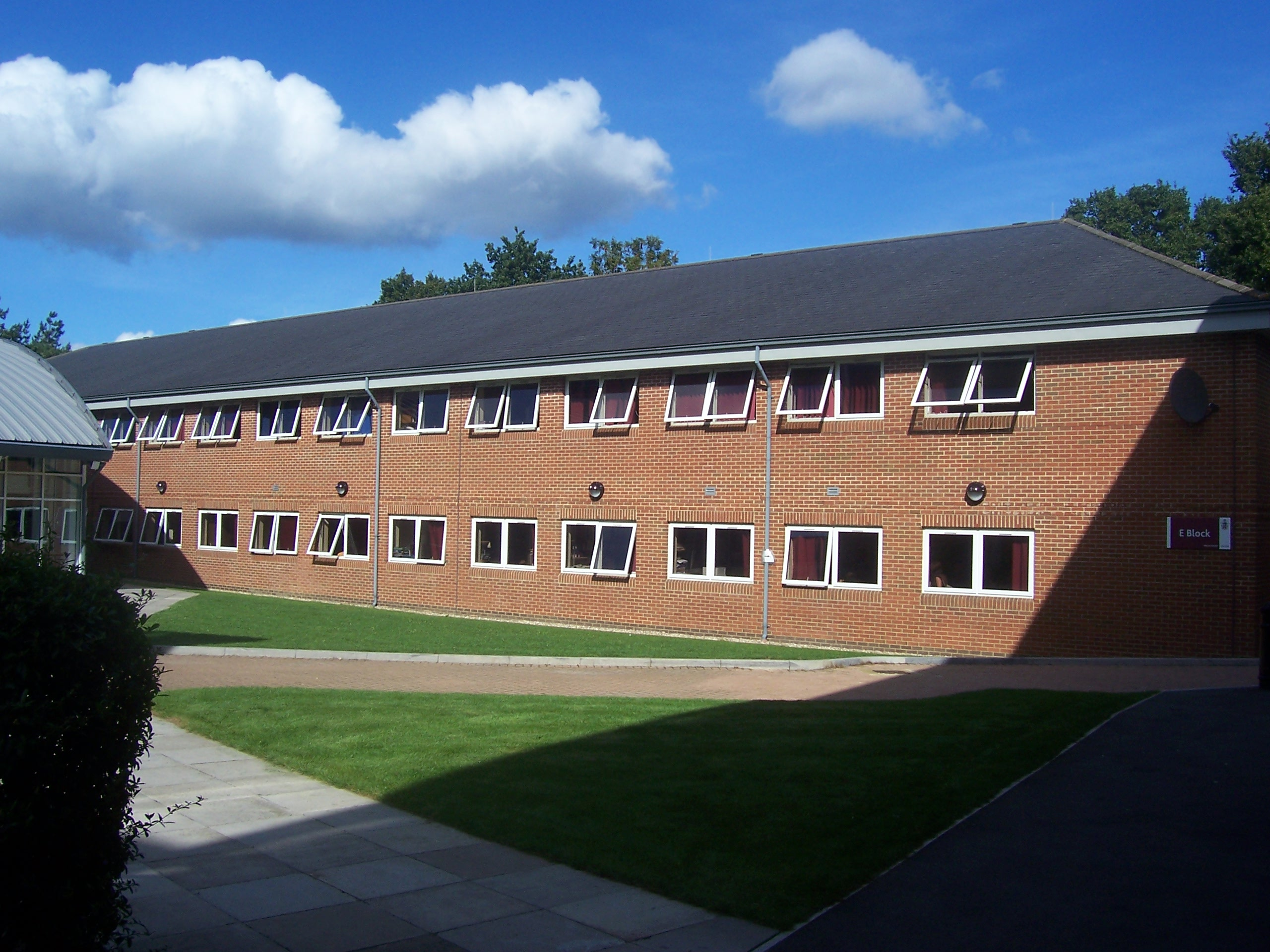 Created myself at Brockenhurst College, October 2006